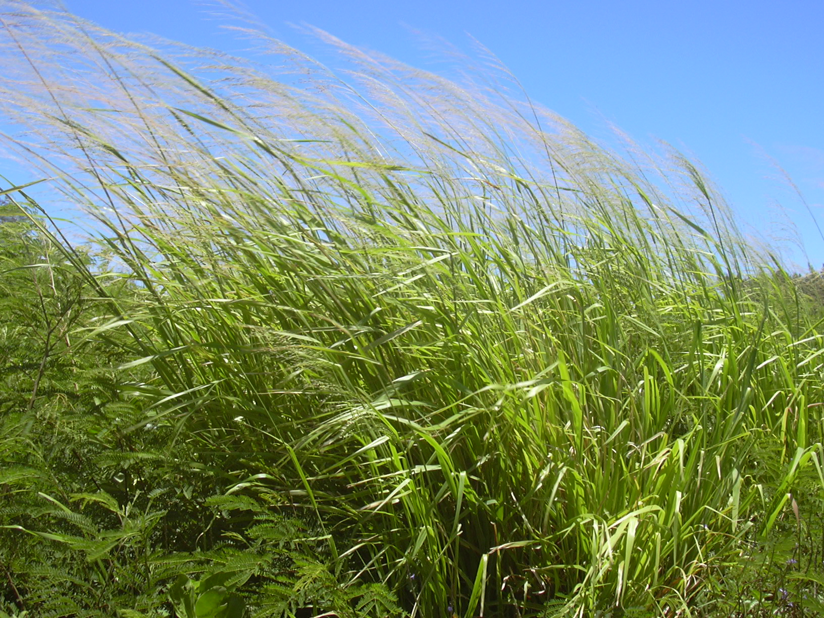 Panicum maximum (habit). Location: Maui, Kahului